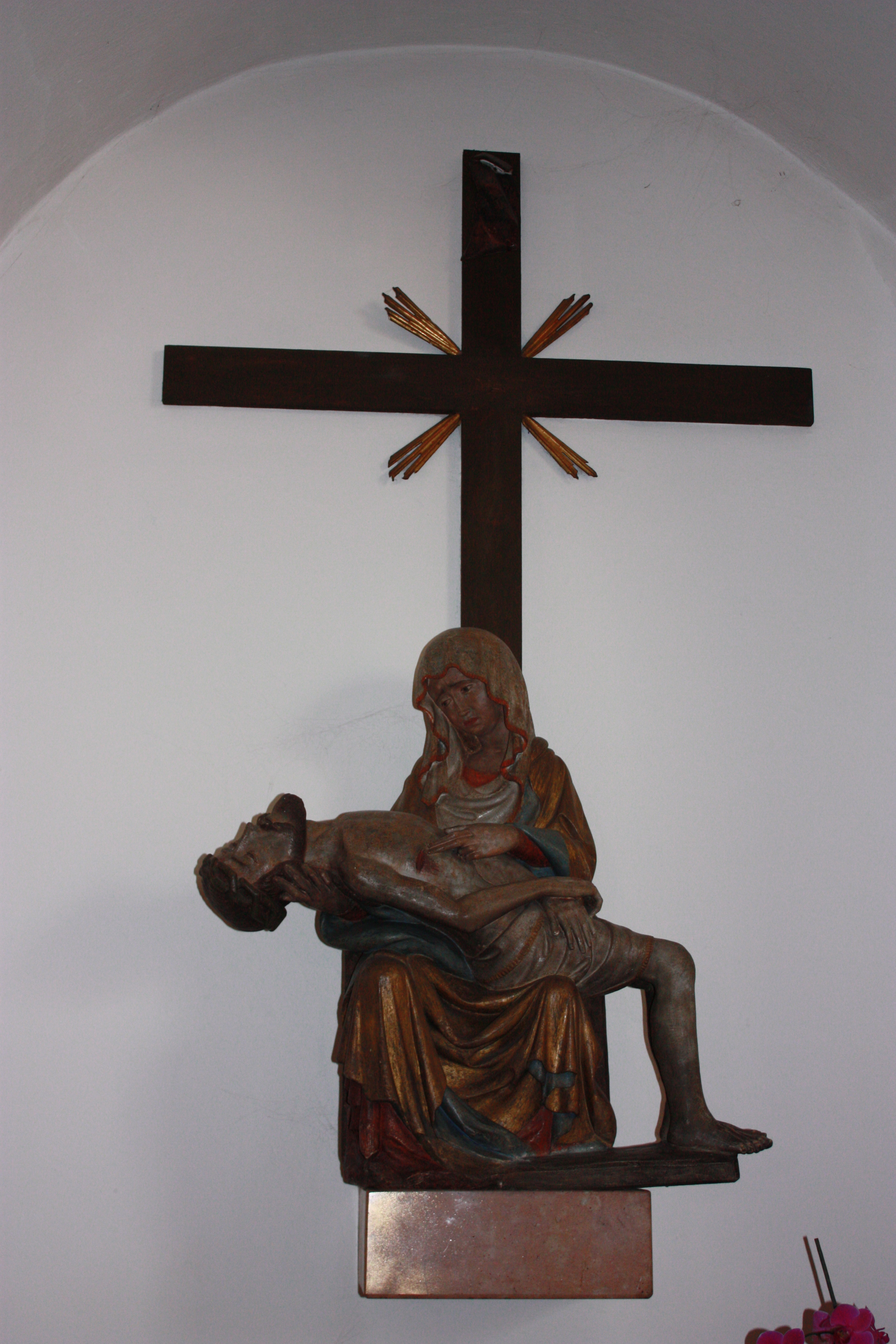 Parish church - Pieta Locality: Spital an der Drau Community:Spittal an der Drau